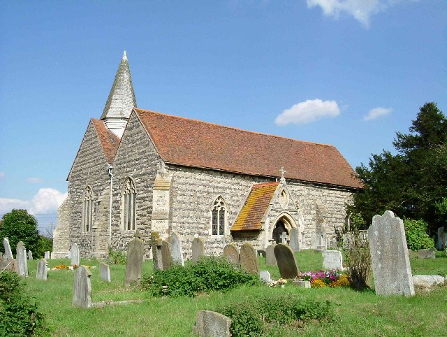 St Mary's parish church, Church Street, Higham, Kent, seen from the southwest